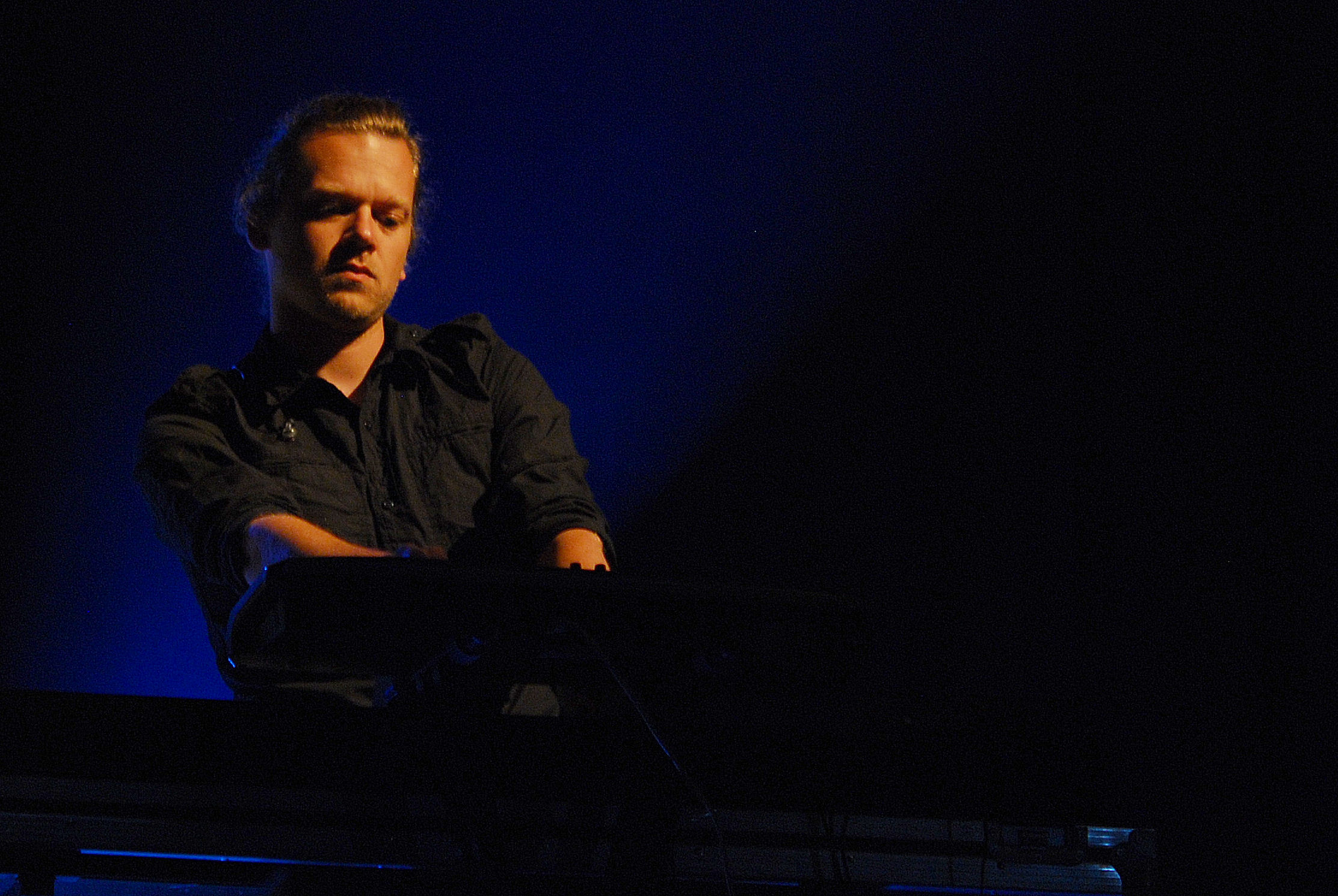 Taking of this photo was in cooperation with wRacku Festiwal